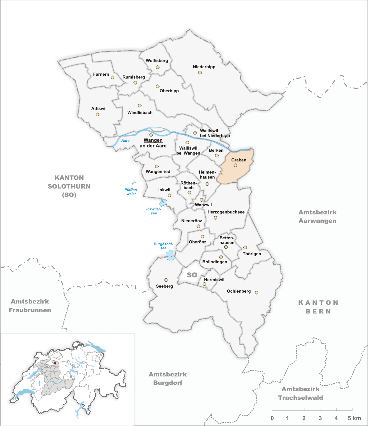 Municipality Graben